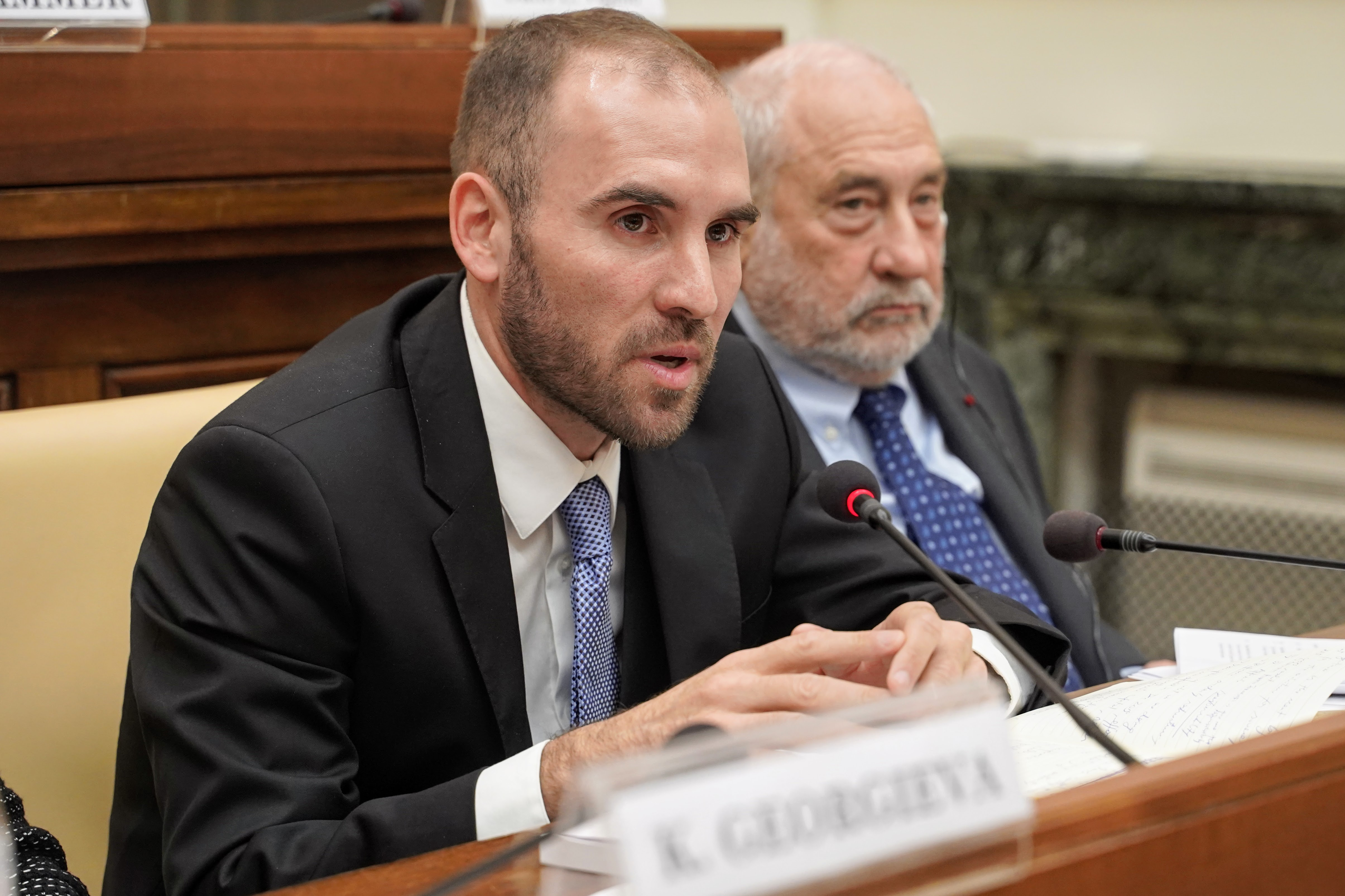 Martín Guzmán, Minister of the Economy of Argentina, at the Pontifical Academy of Sciences with Joseph Stiglitz, 5 February 2020